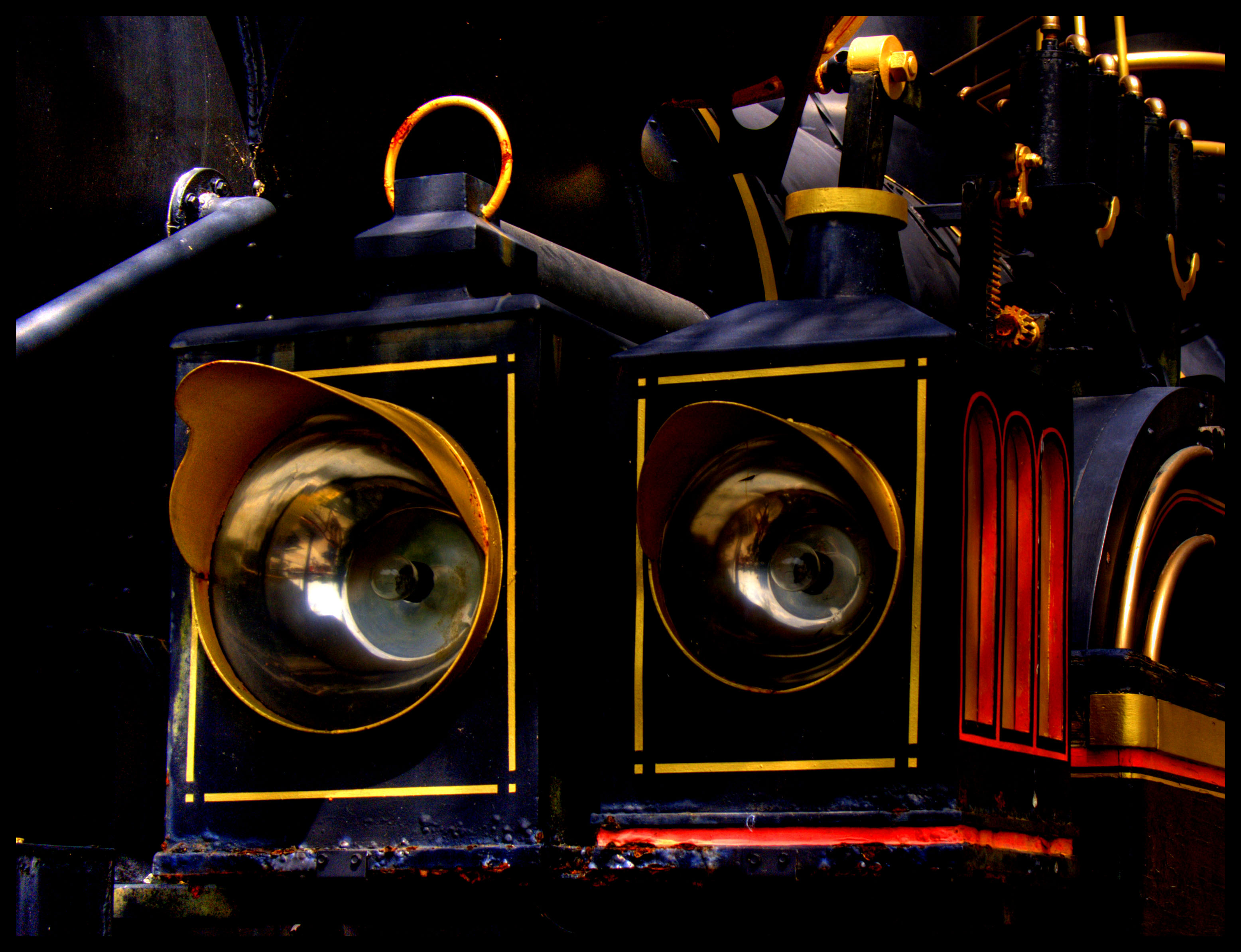 Detail of the Doc's time train from Back to the Future Part III.